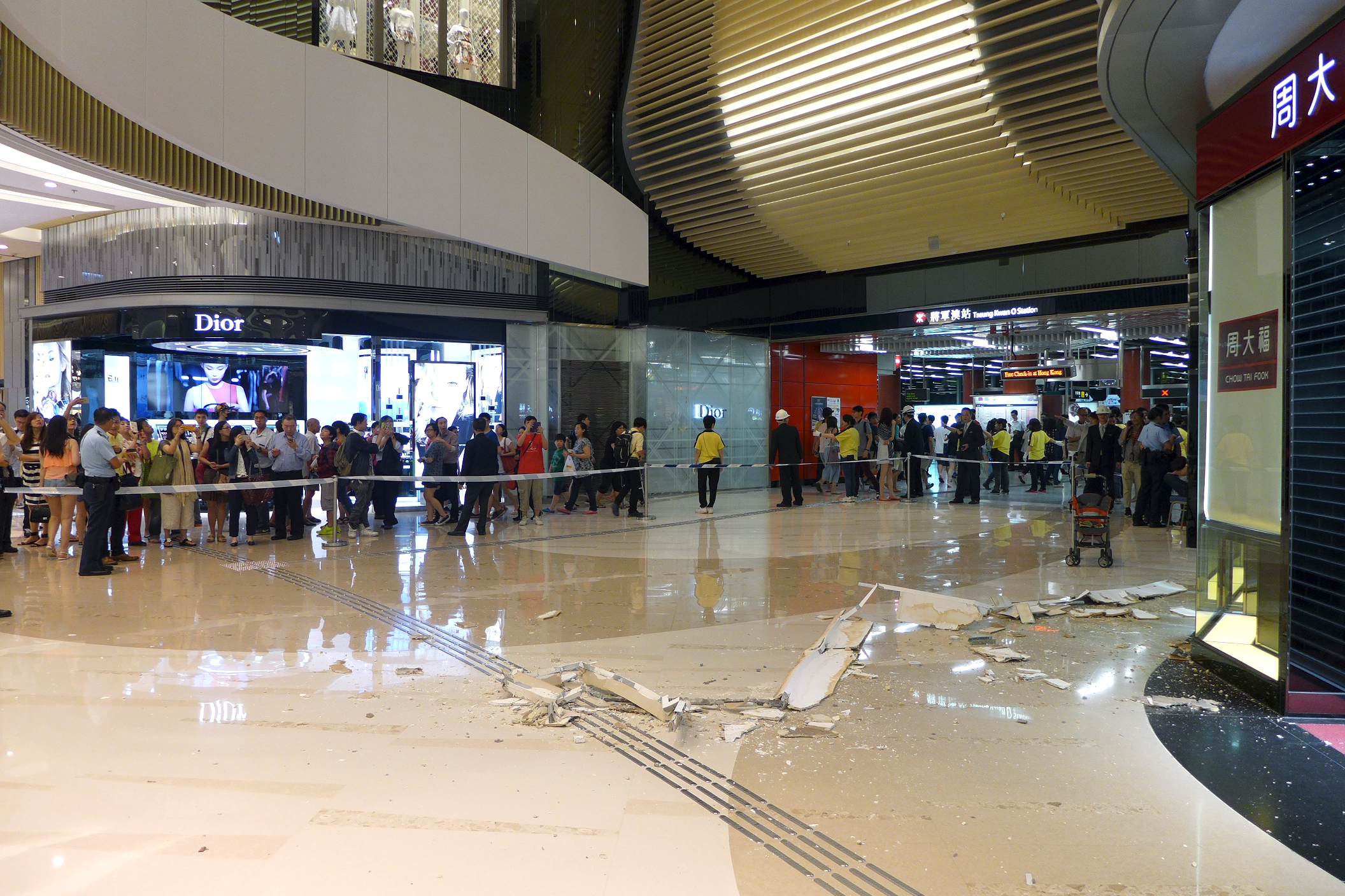 PopCorn Mall Ceiling collapse_